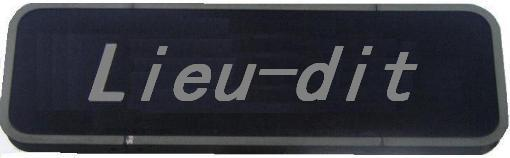 Type of sign welcoming visitors to a lieu-dit, that means a place in France.